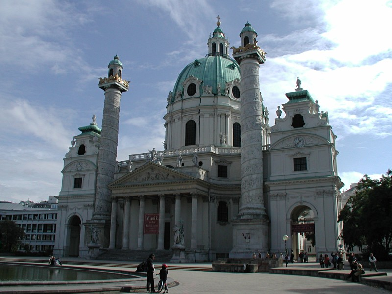 Austria, Vienna, St. Charles's Church